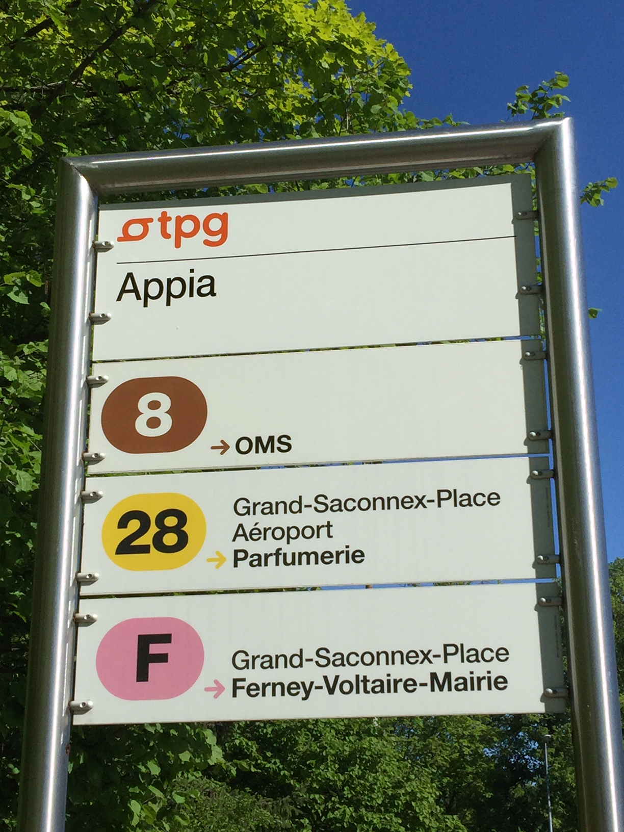 Bus stop "Appia" in Geneva